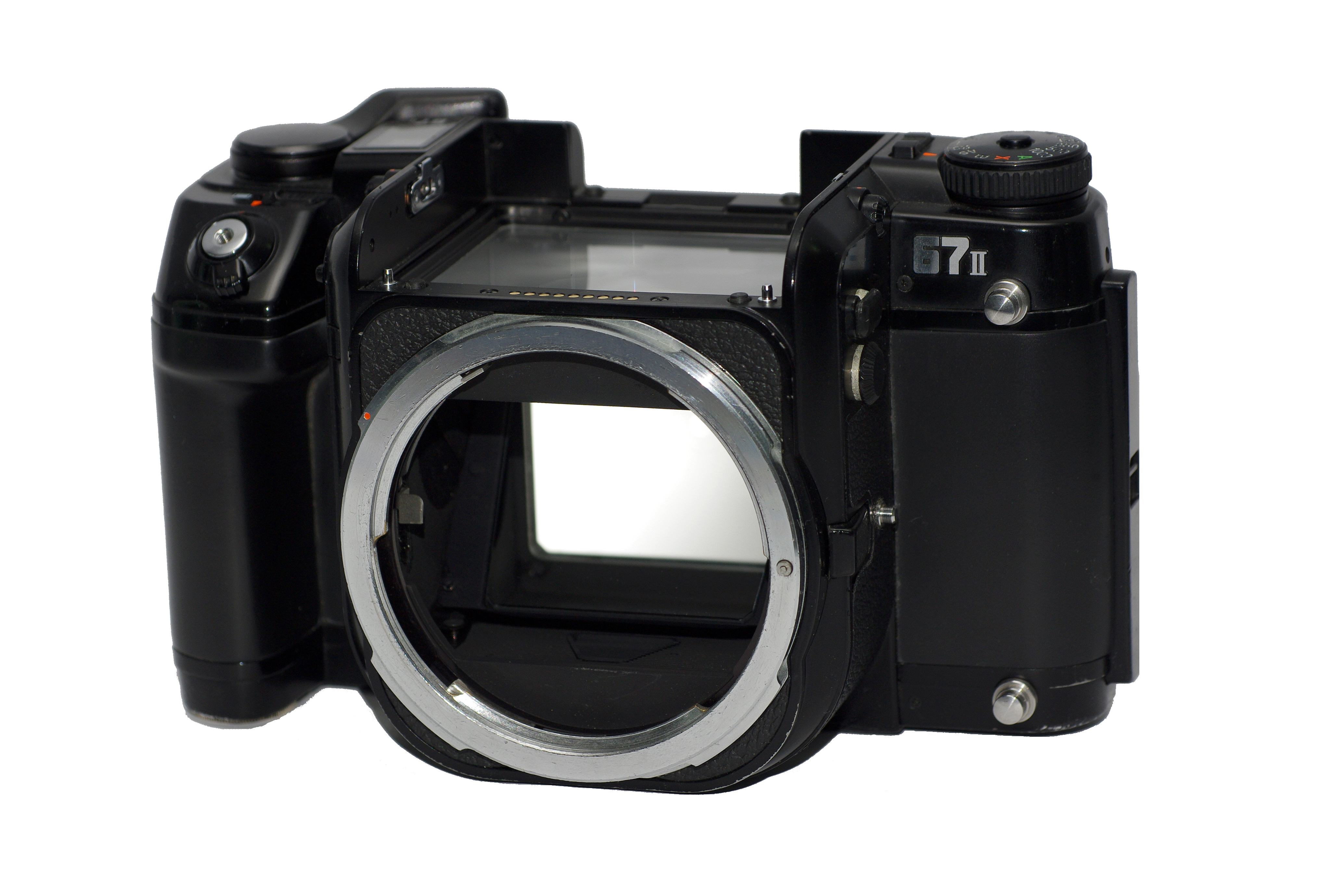 Pentax 67 II SLR camera